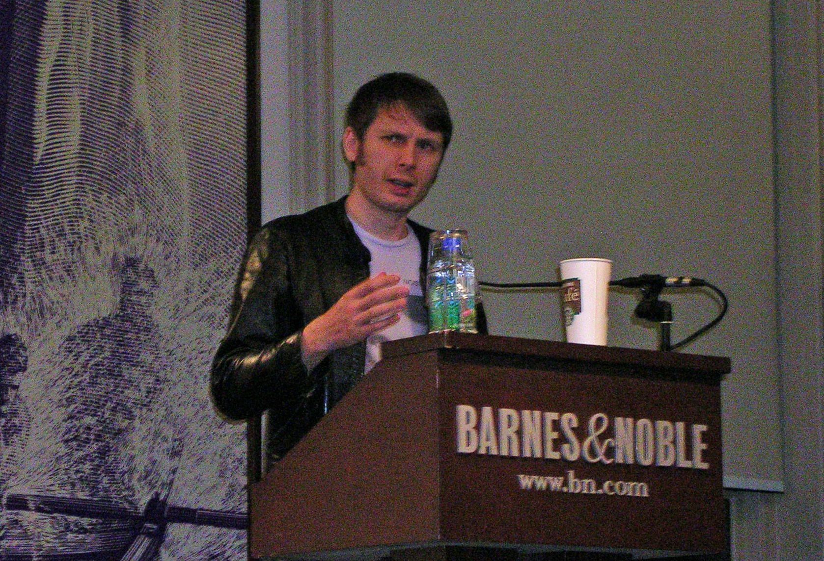 Alex Kapranos by David Shankbone